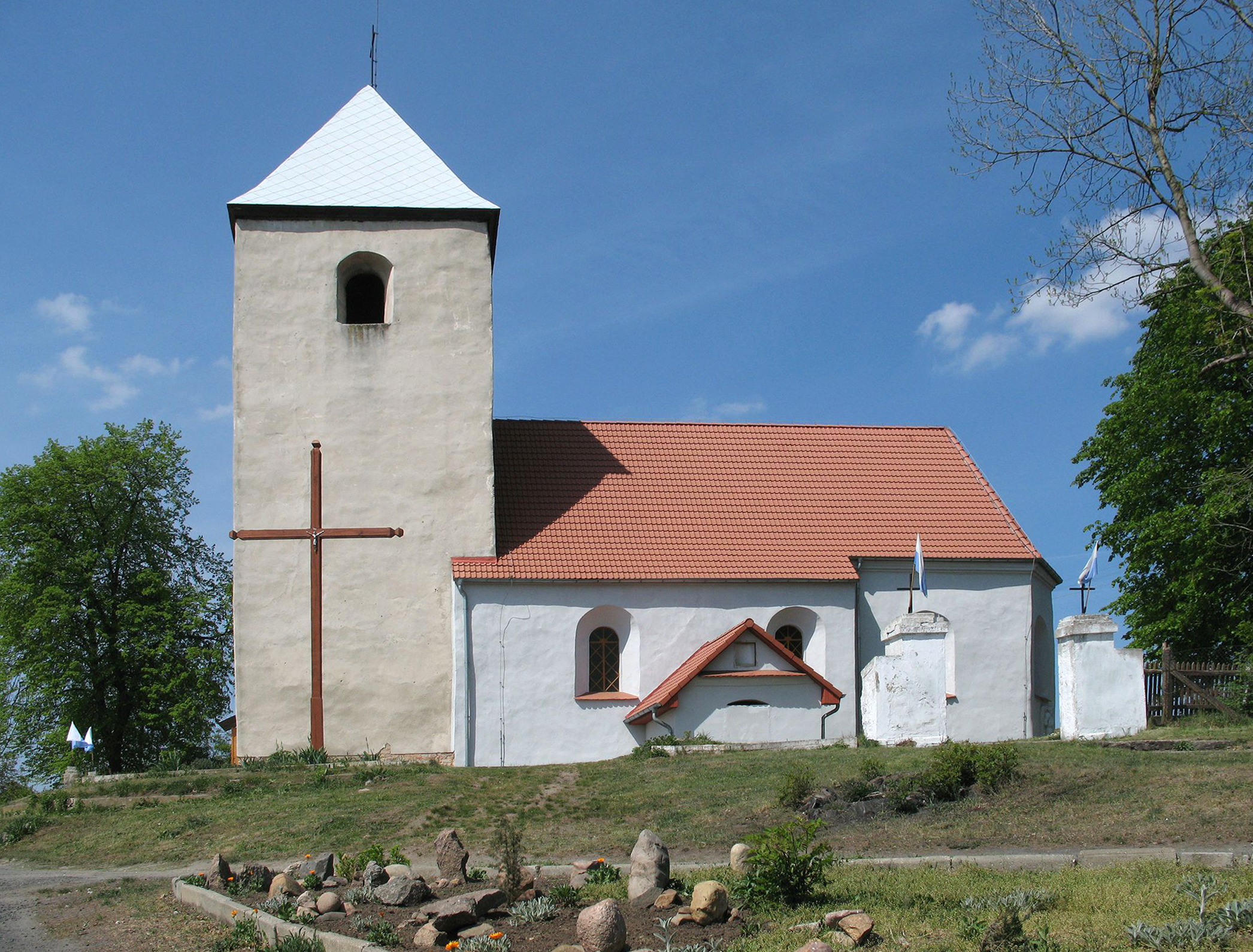 Saints Simon and Jude church in Letnica near Zielona Góra, Poland